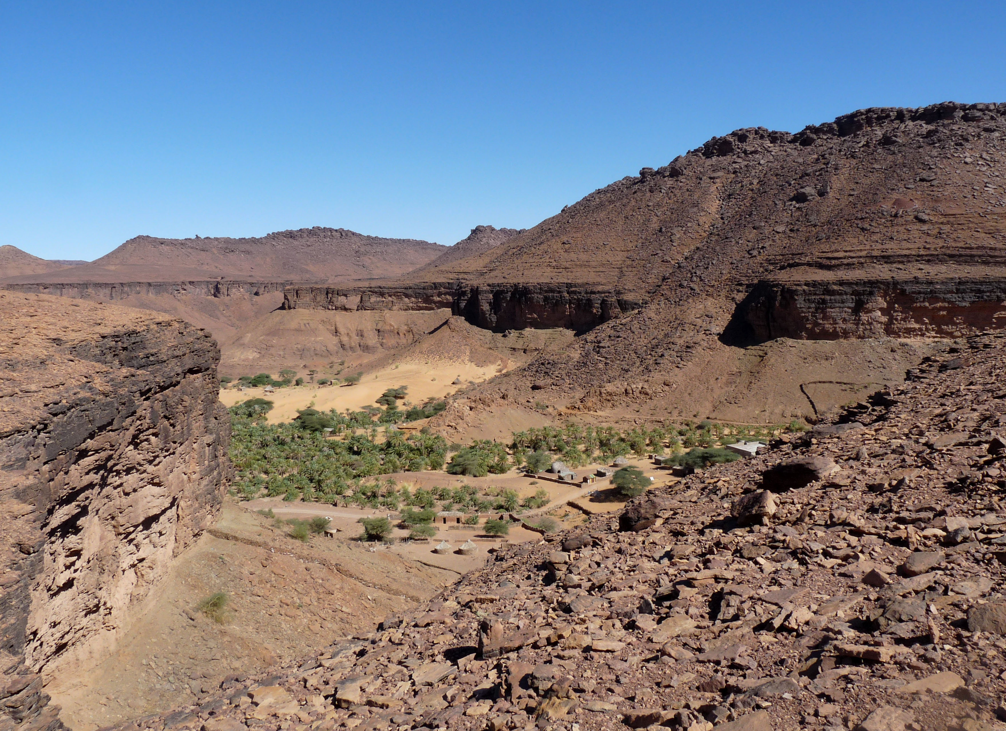 Oasis of Tergit (Adrar, Mauritania)